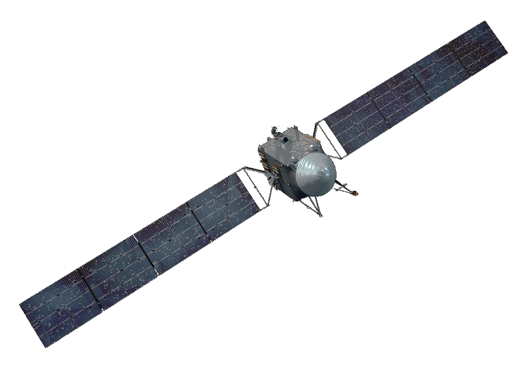 Concept rendering of the Psyche spacecraft, as of selection as Discovery mission 14 in January 2017.